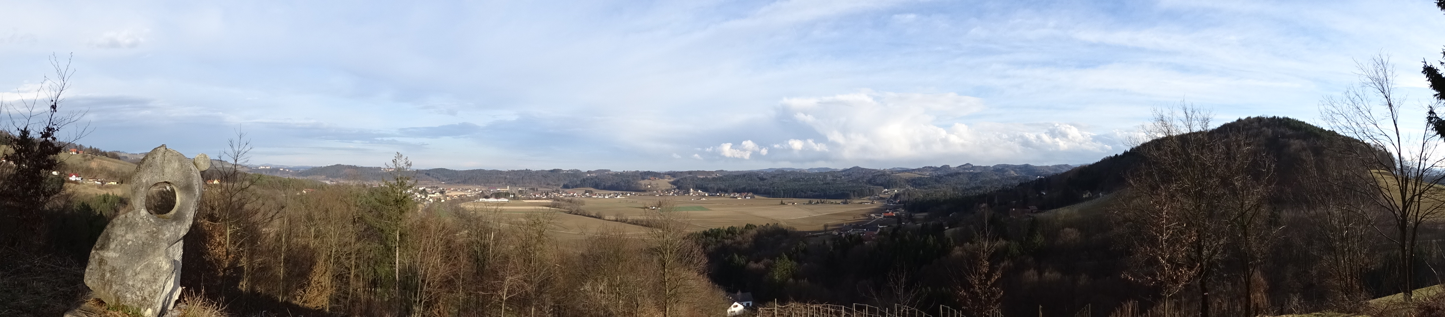 The picture shows the view from the so-called "Keltenturm" on the "Königsberg".